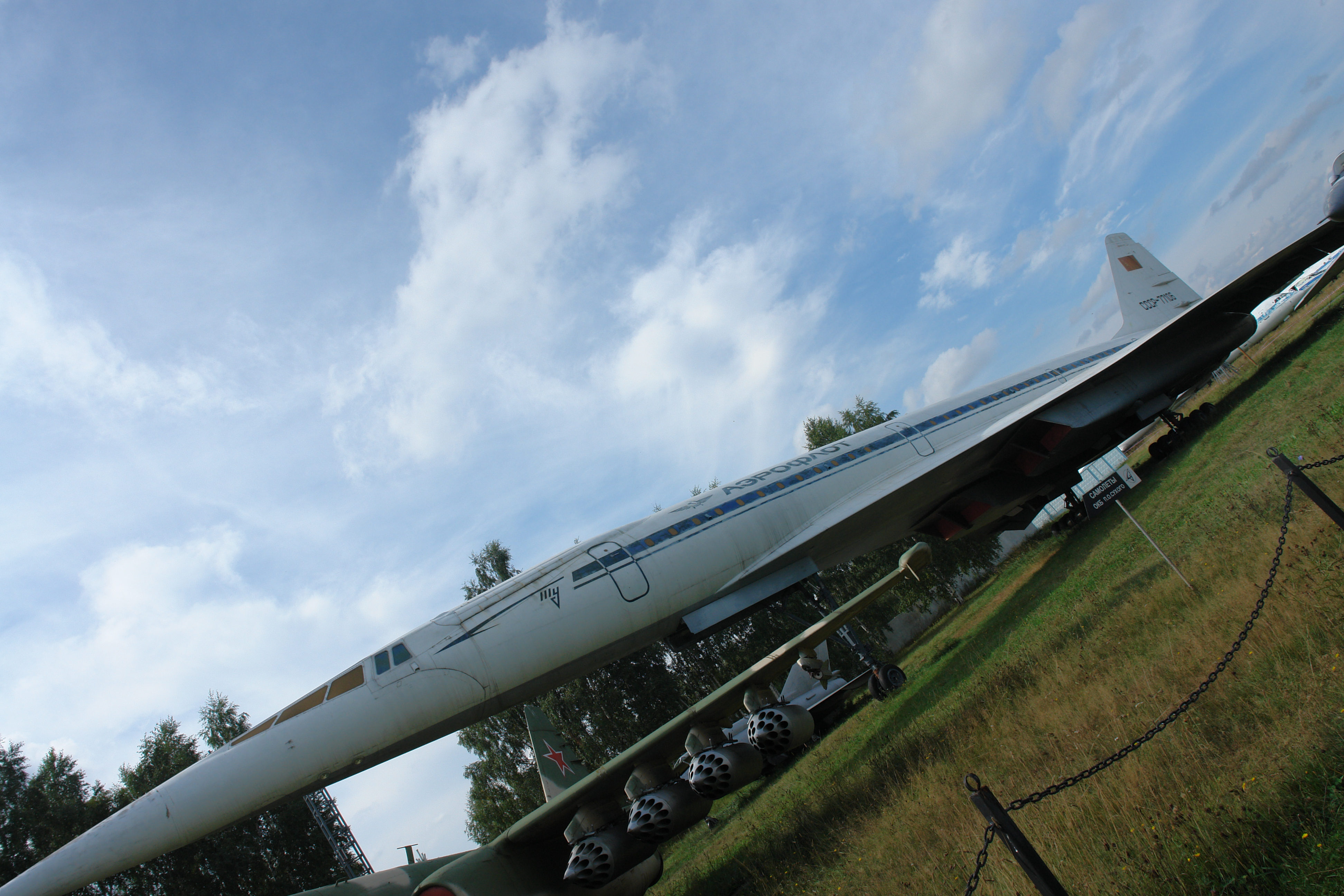 Tupolev Tu-144 (Charger) at Monino Central Air Force Museum (Moscow).